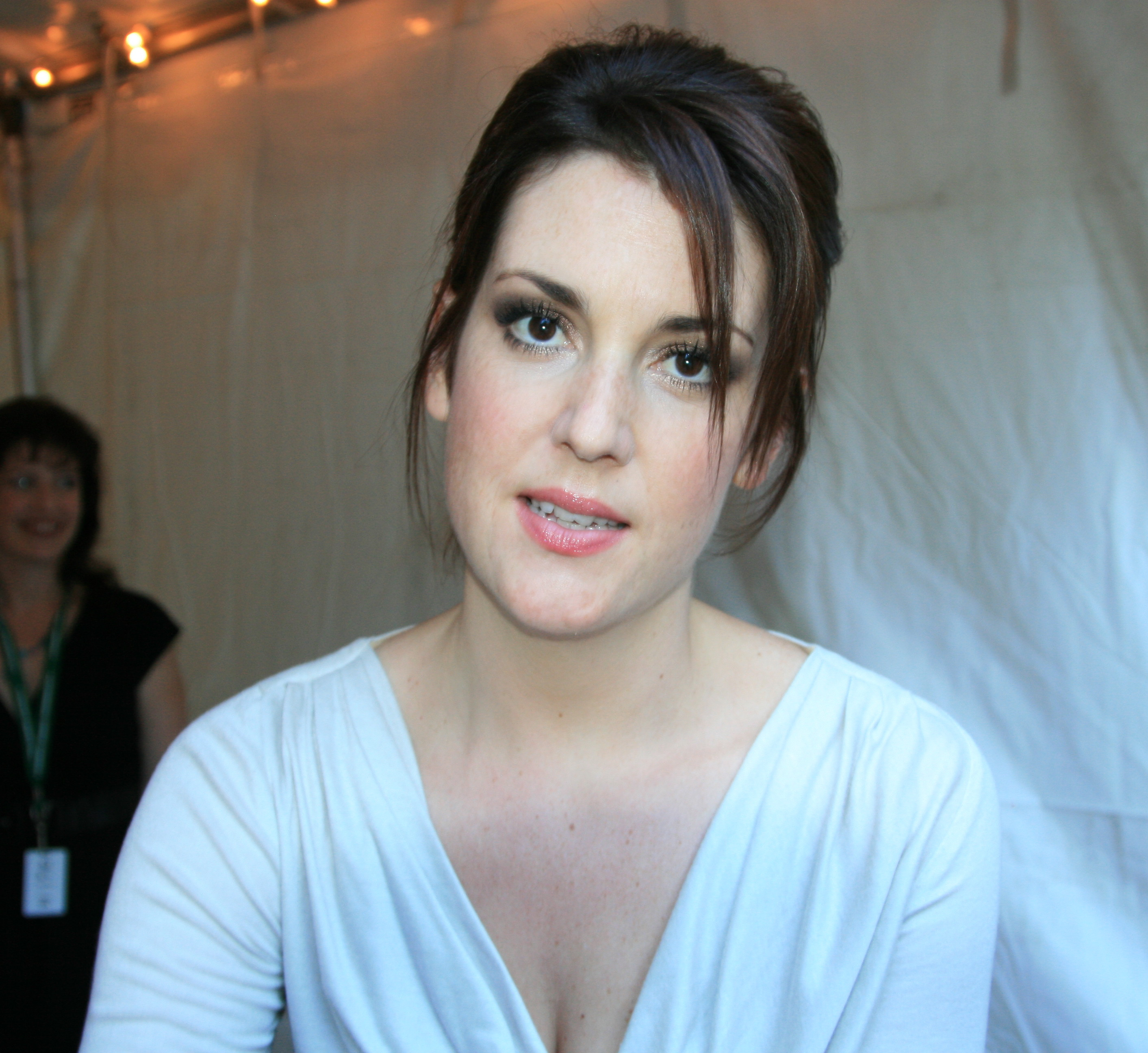 Melanie Lynskey at the screening of Up in the Air.